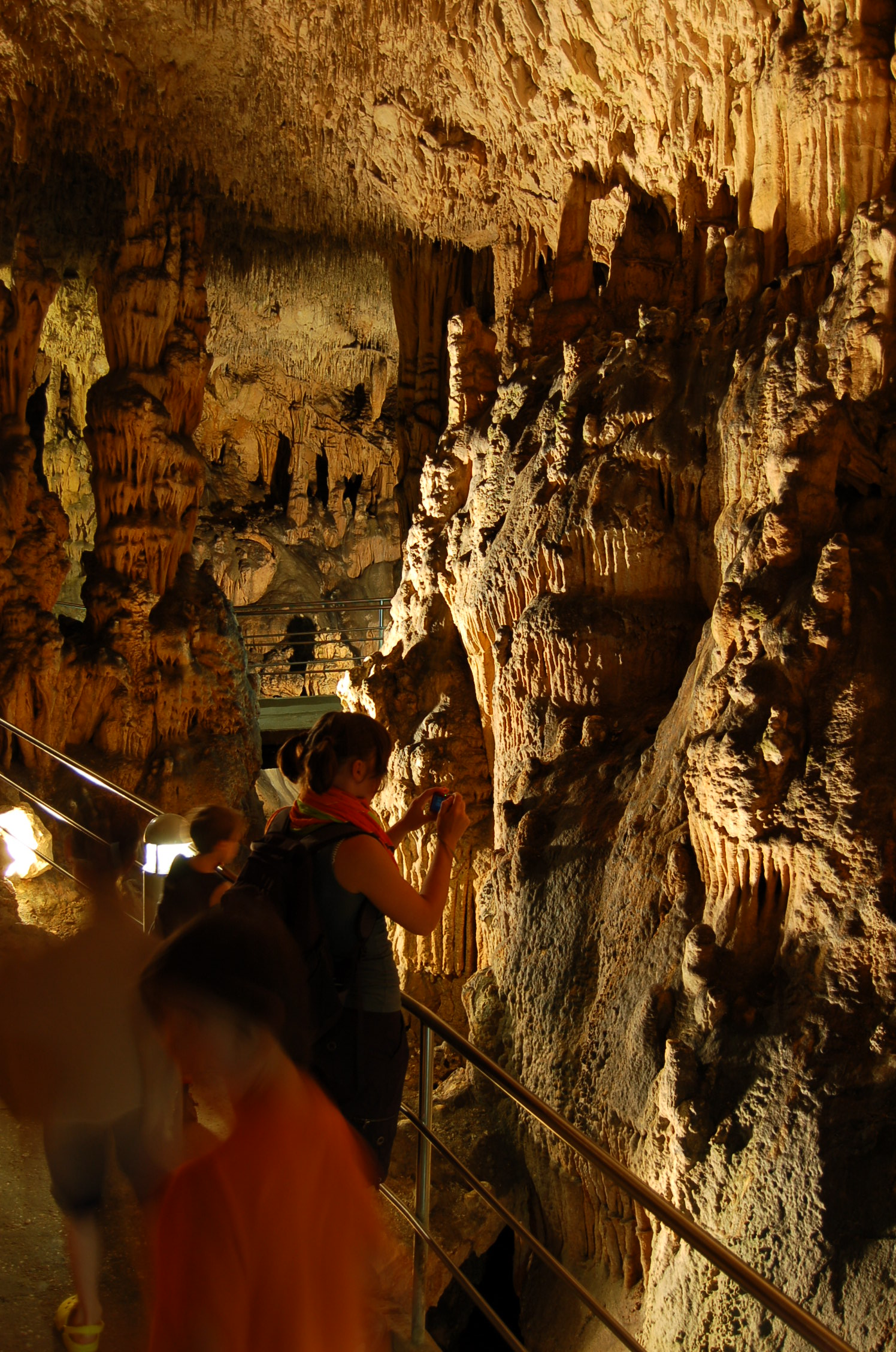 Biserujka dripstone cave, Dobrinj, Island of Krk, Croatia